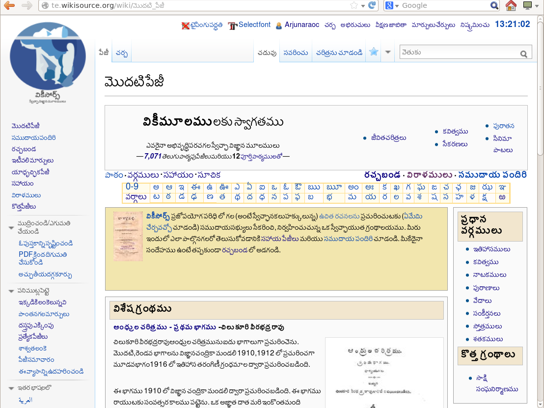 Telugu Wikisource First Page